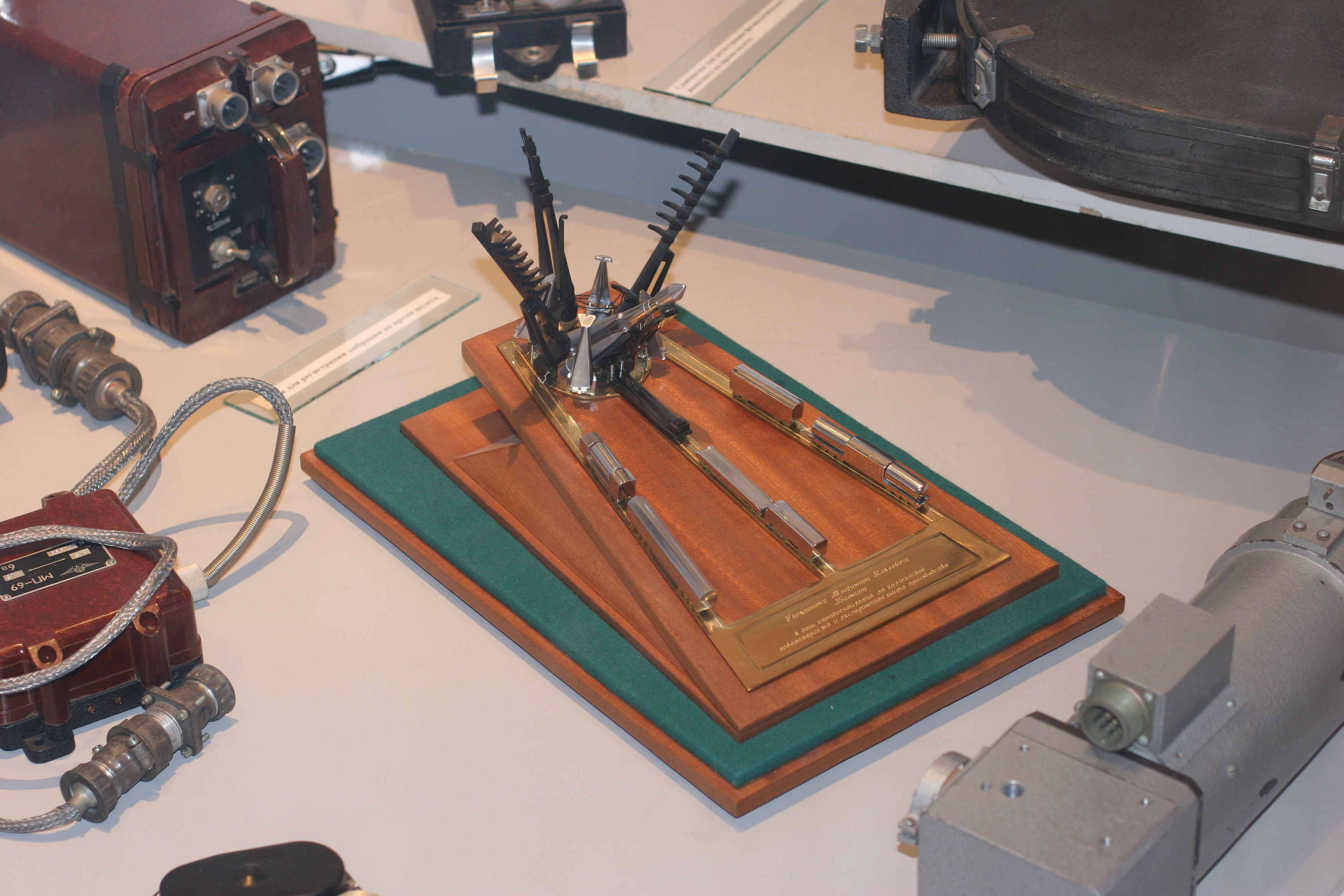 To the Dear Vladimir Pavlovich Barmin in the day of his 70th anniversary from the collectives of laboratory no. 8 and of the experimental works